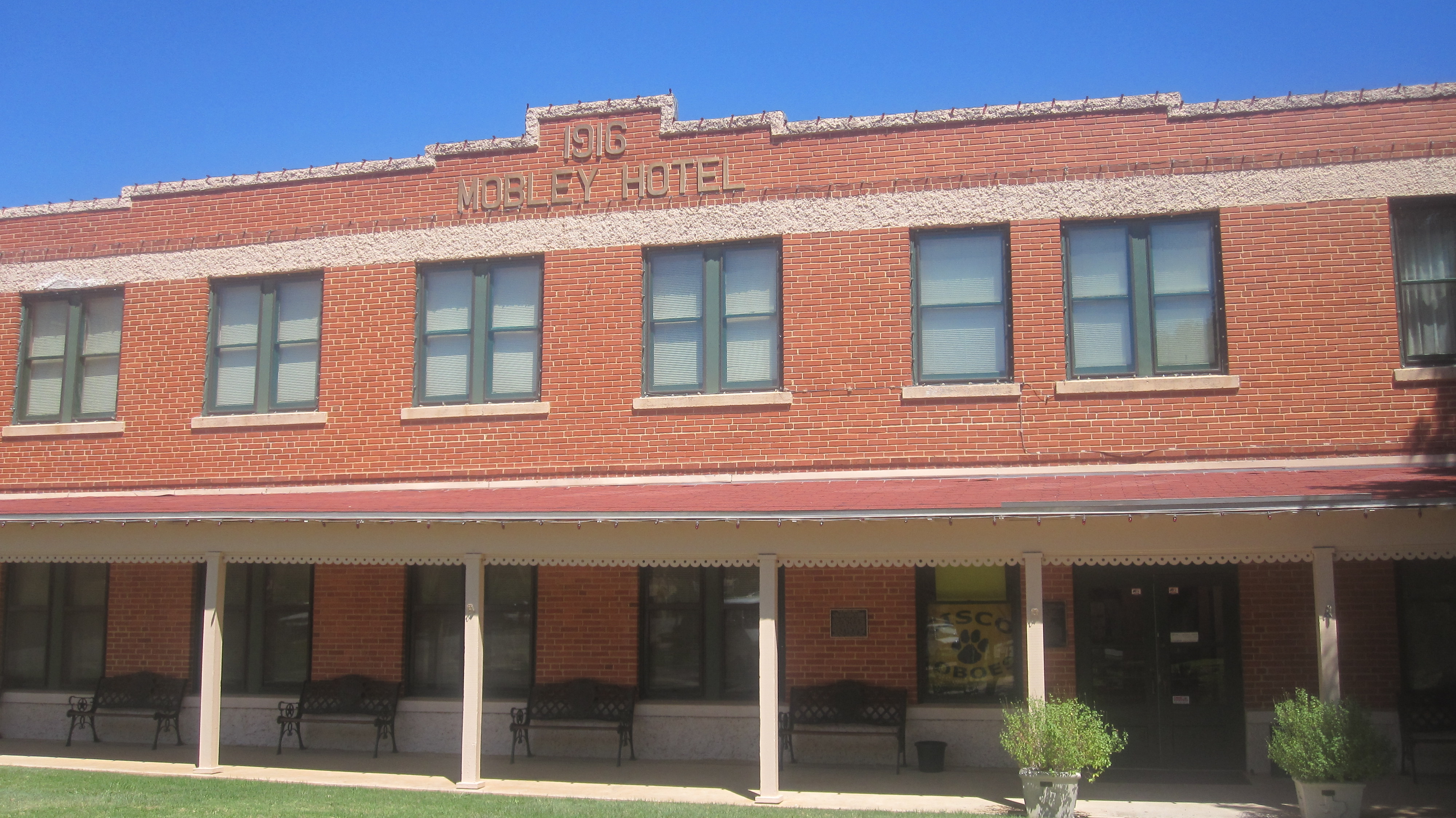 I took photo with Canon camera in Cisco, TX.